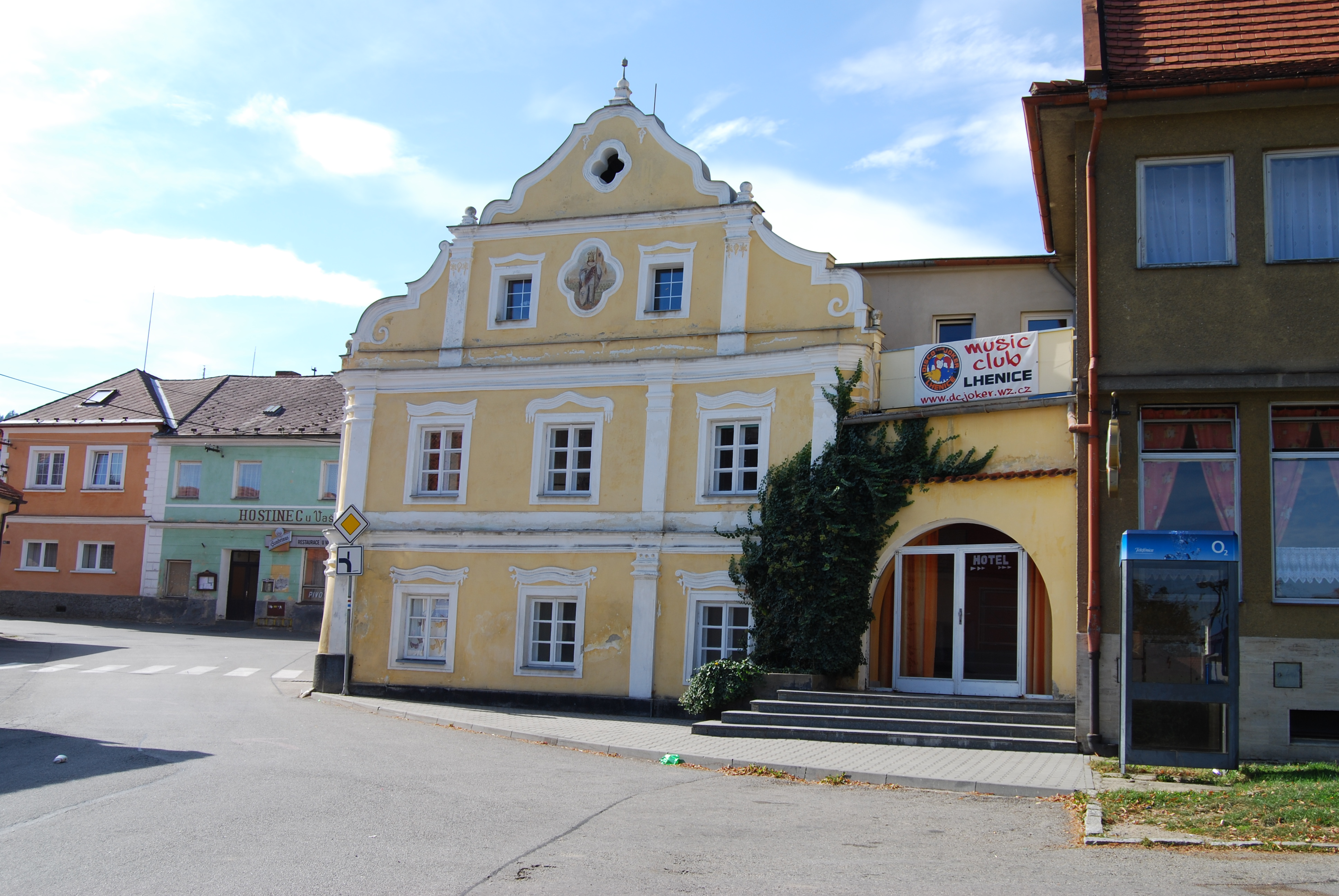 Lhenice town in Prachatice District, Czech Republic.